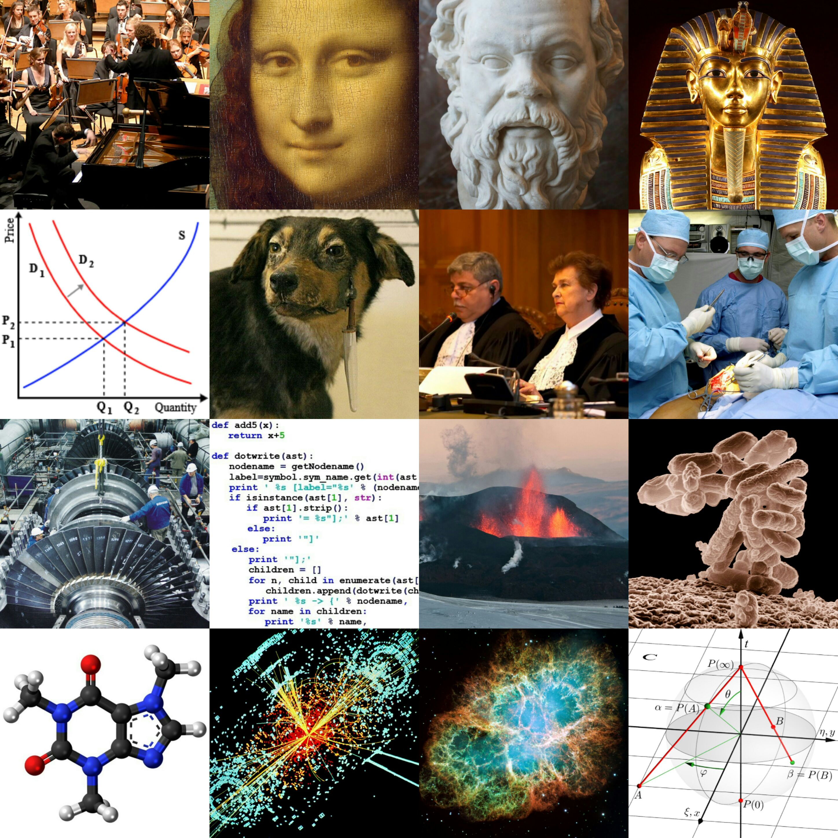 Collage of images representing different academic disciplines: orchestra (music); detail of the Mona Lisa by Leonardo da Vinci (painting); a sculpture of Socrates in the Louvre Museum (philosophy); funerary mask of Tutankhamun (history/archaeology); a supply and demand diagram, illustrating the effects of an increase in demand (economics); one of Pavlov's dogs (psychology); judges of the International Court of Justice (jurisprudence); surgeons at work (medicine); assembly of a steam turbine rotor produced by Siemens (engineering); computer programming (computer science); eruption of Eyjafjallajökull (volcanology); Escherichia coli (biology); 3D structure of caffeine (chemistry); simulated data modeled for the CMS particle detector on the Large Hadron Collider (LHC) at CERN (physics); Riemann sphere (mathematics).